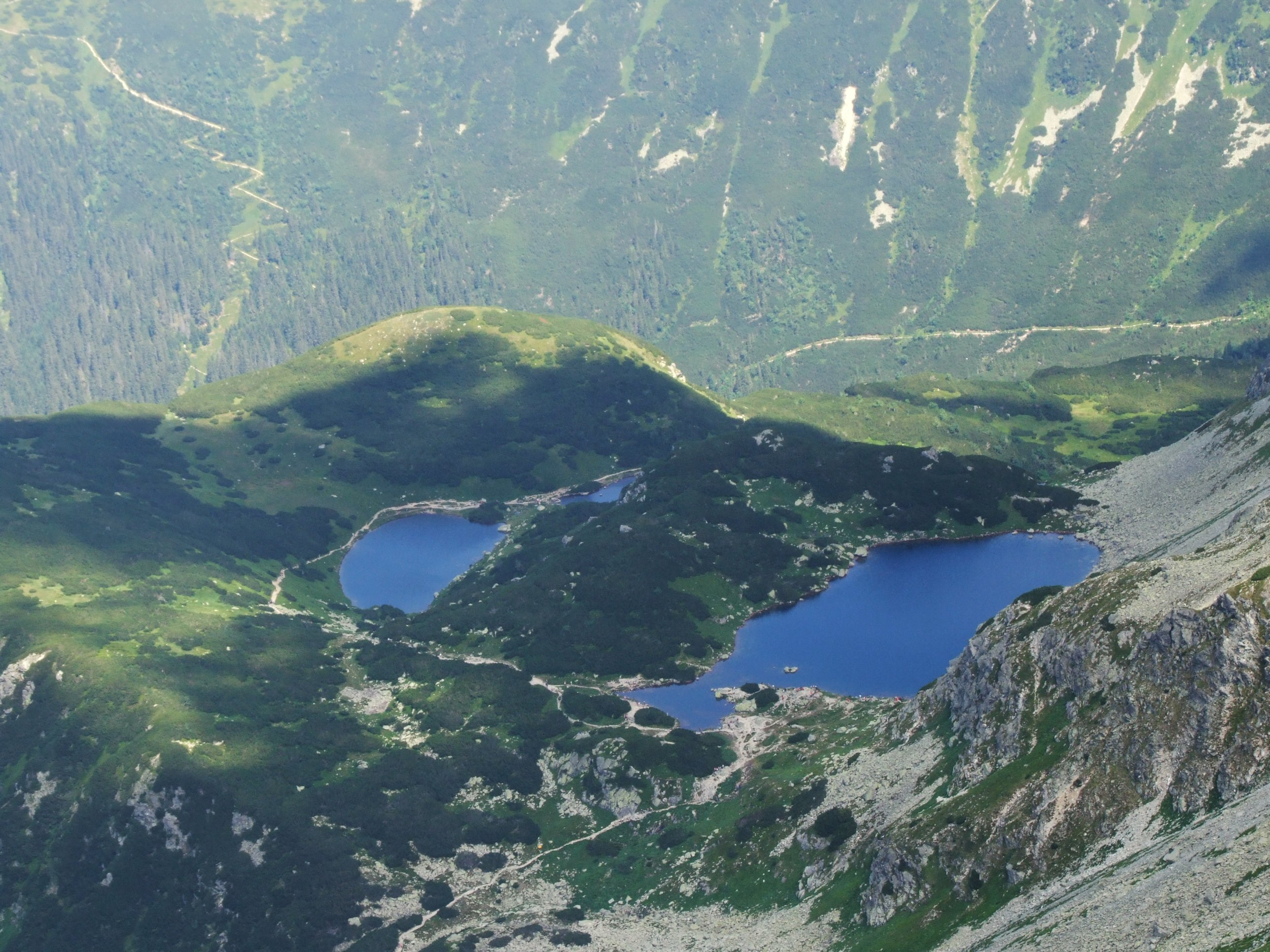 Stawy Rohackie (Roháčske plesá) - West Tatra Mountains